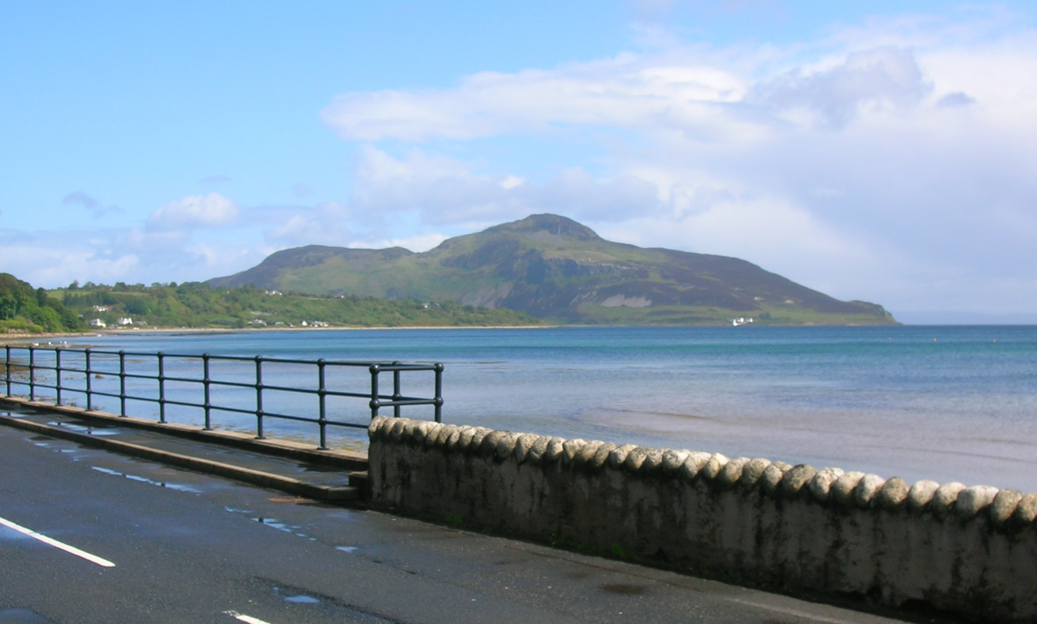 Holy Isle from Whiting Bay, Isle of Arran, North Ayrshire, Scotland.